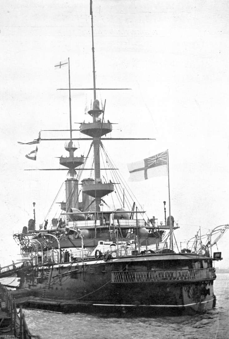 Stern view of British battleship HMS Majestic, showing QF 3 pounder guns mounted in the crow's nests on the masts.